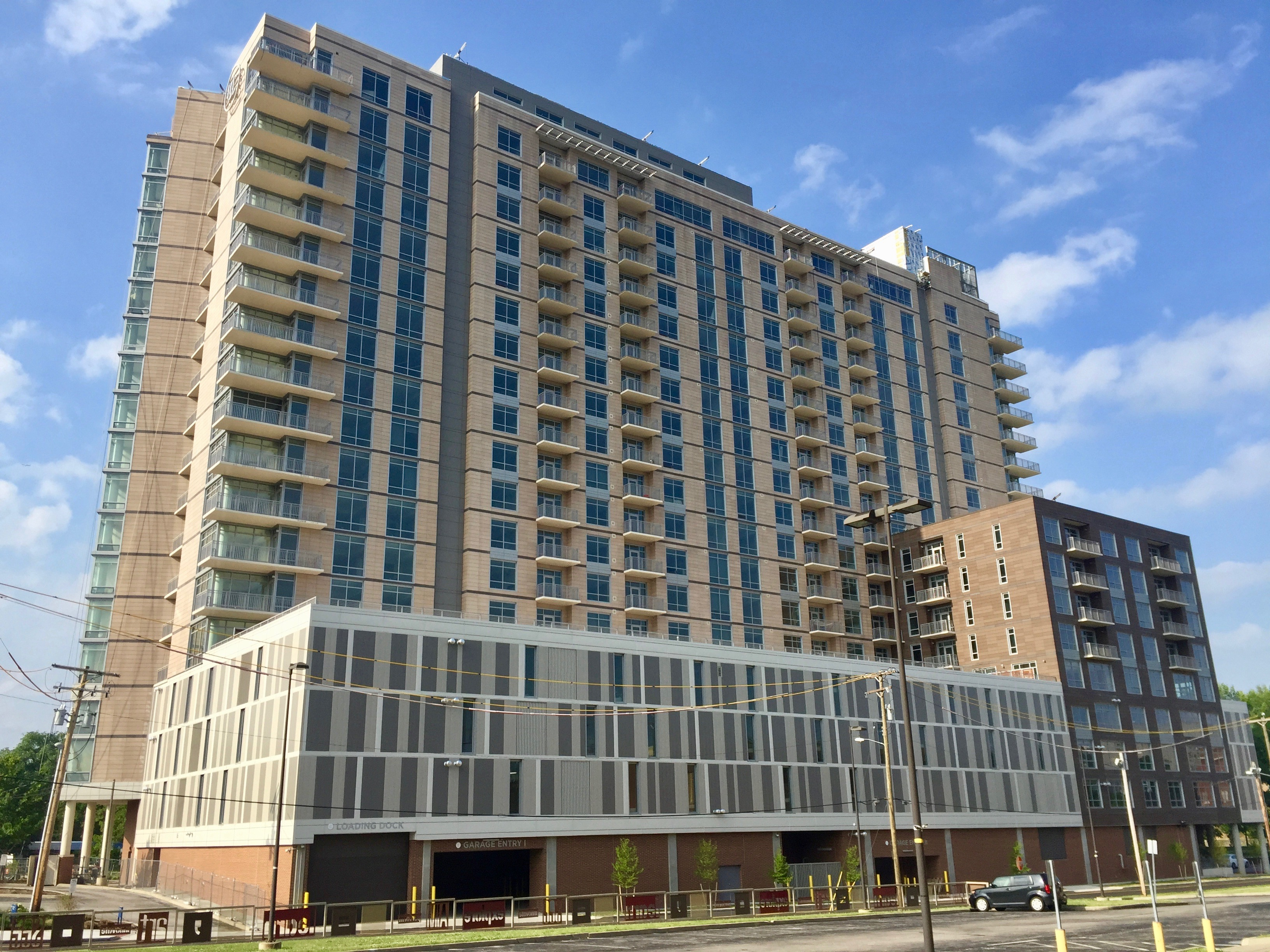 This new condo tower is located on Euclid Avenue at University Circle in Cleveland’s University Circle neighborhood. Constructed in 2017-18, the One University Circle Tower is the first phase of a multi-phase multi family housing development that will eventually ring the south side of the old traffic circle that gave the surrounding neighborhood its name around the turn of the 20th Century. The building was built on the site of the former Cleveland Children’s Museum, which was located in a tent-like structure constructed in the 1980s on the same site, and was surrounded by parking lots. This tower is one of many new developments in this portion of the city, which are intended to transform the area from a collection of cultural institutions, educational institutions, and medical facilities into a full-fledged, vibrant, and mixed-use neighborhood. With many new developments on the horizon for the surrounding areas and the lack of existing buildings ripe for reuse, I see many such projects in store for this corner of the city in the future.